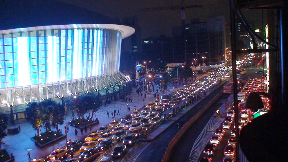 TAIPEI SCREEN中文（台灣）: 台北天幕